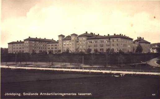 View of Småland Army Artillery Regiment's (A 6) barracks in Jönköping. Postcard.